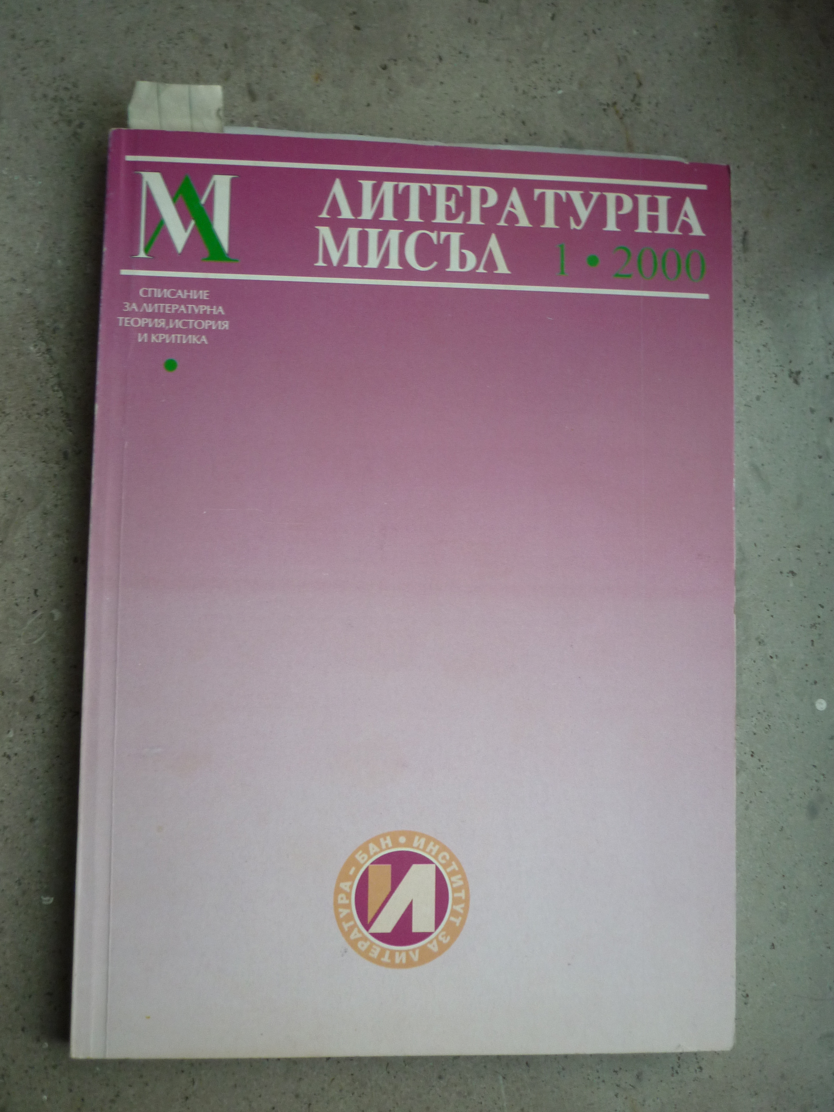 Cover of „Literaturna misyl“ (Bulgarian Language) journal, 2000, No1.